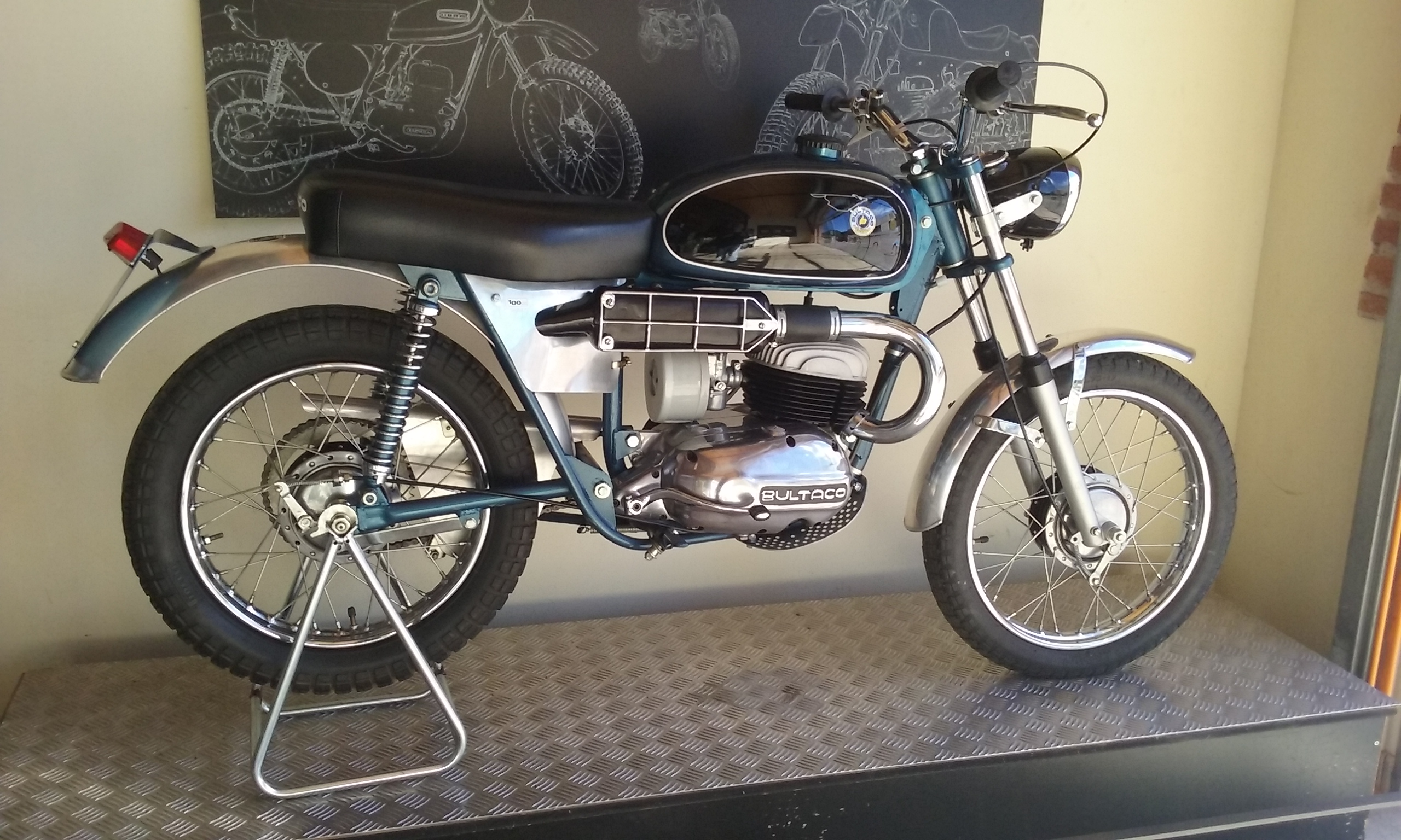 Bultaco Lobito 100, 1967